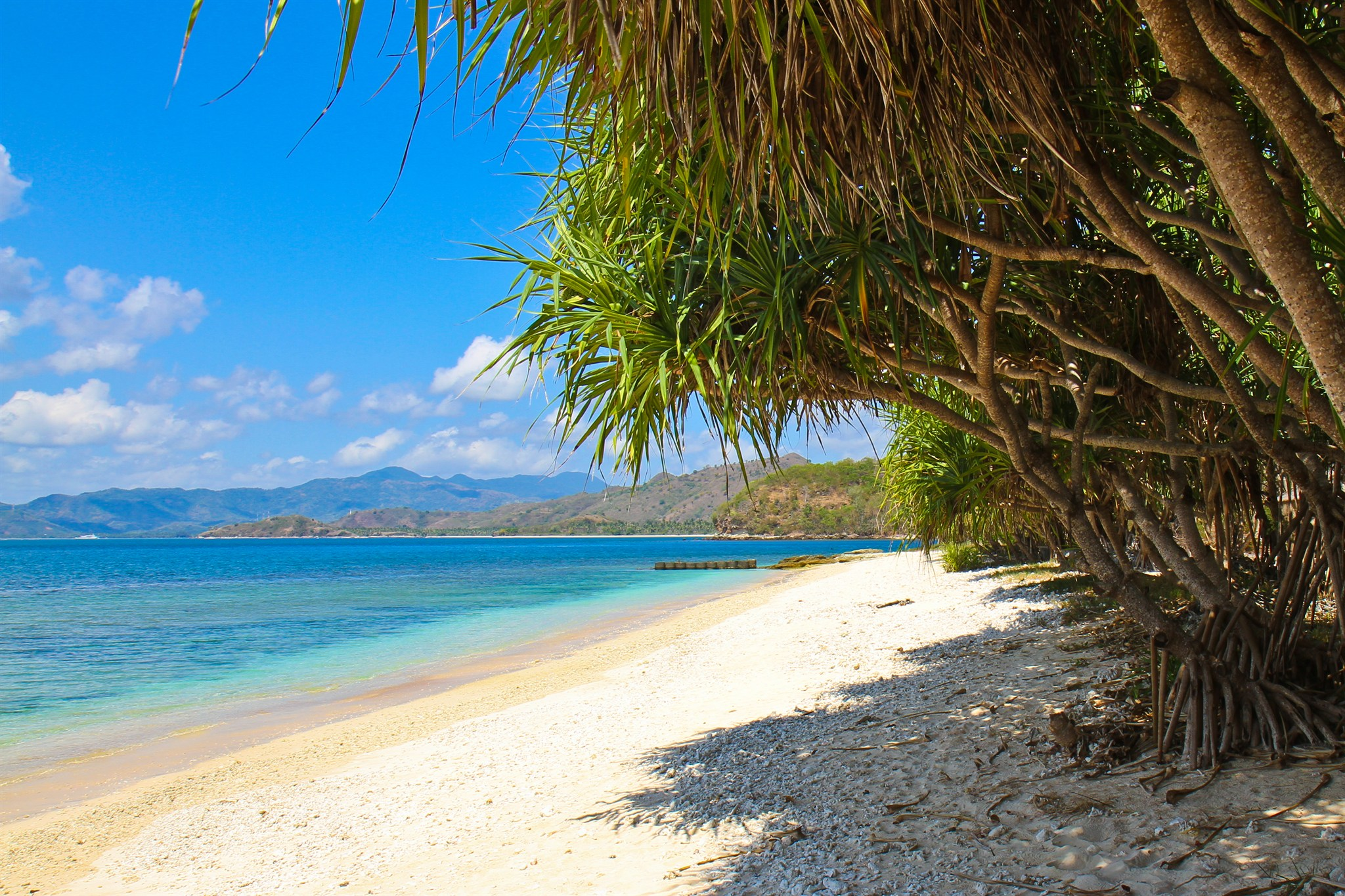 La plage sur Gili Nanggu.